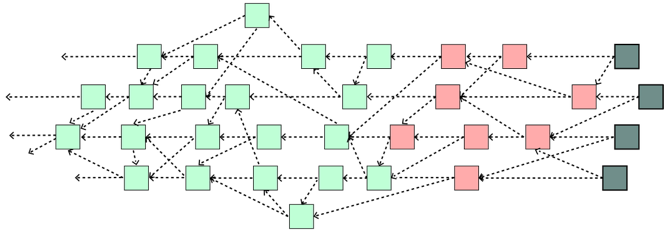 IOTA tangle Each square box on this diagram represents a transaction being sent. Each time a transaction is sent, 2 transactions are validated as part of the process (see the 2 dotted arrow lines extending from each transaction to 2 other transactions). The grey boxes on the right represent new (non-validated) transactions. The red boxes represent transactions that have been validated a few times. The green boxes represent transactions that have been validated a sufficient number of times, in order to be accepted as “confirmed” by its recipient.